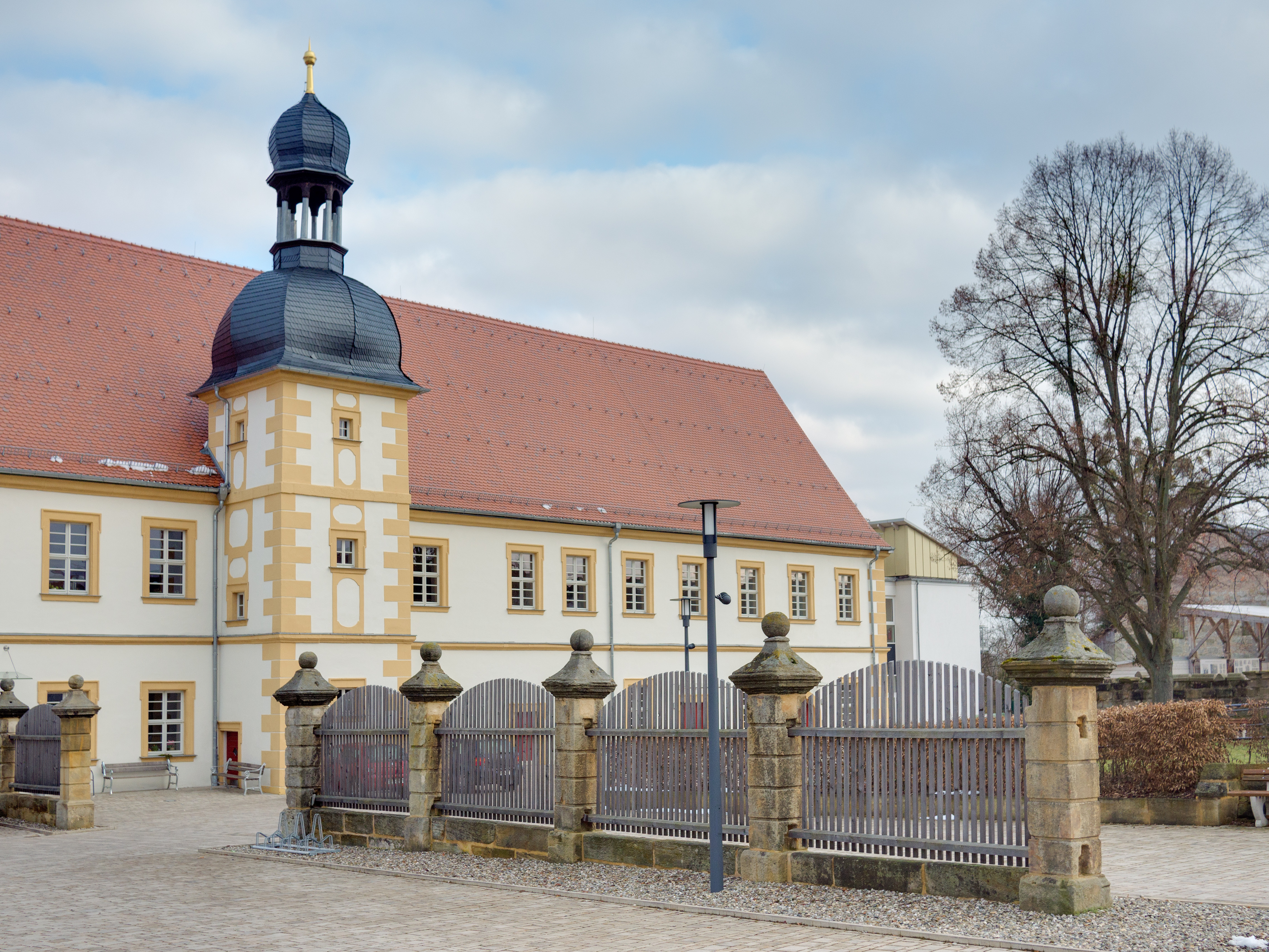 Baunach in castle